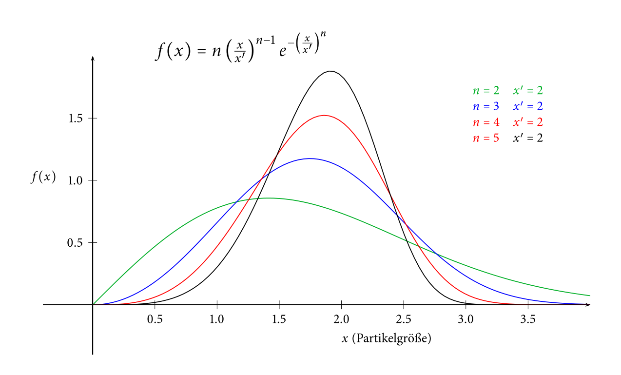 The probability density function of the RRSB-distribution in depedence of it parameters.